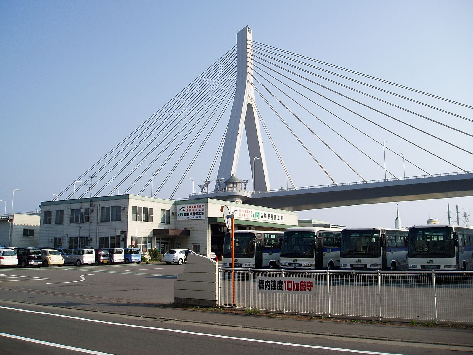 JR Bus Aomori Branch